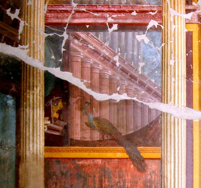 The photo was taken at the excavated Villa in Oplontis, the modern Torre Annunziata near Naples in Campania, Italy. It shows a detail of one wall in room 15.